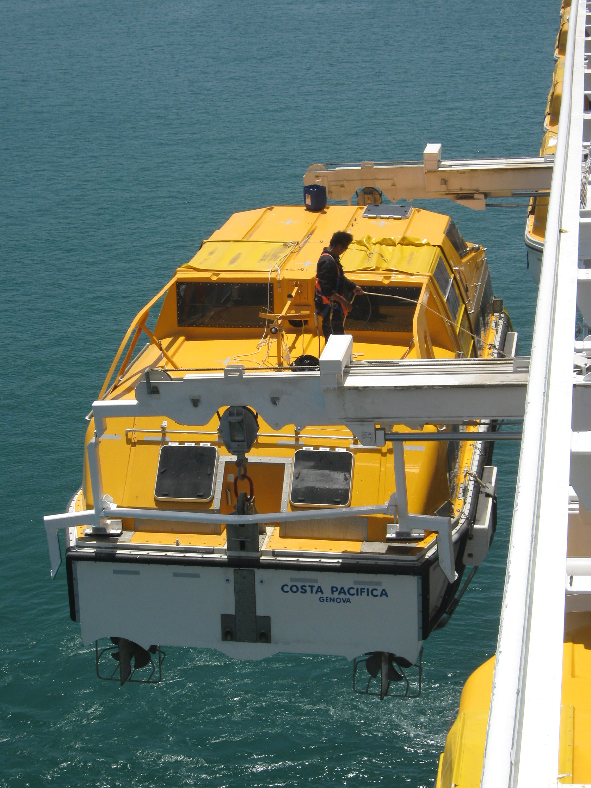 Lifeboat of 'Costa Pacifica'